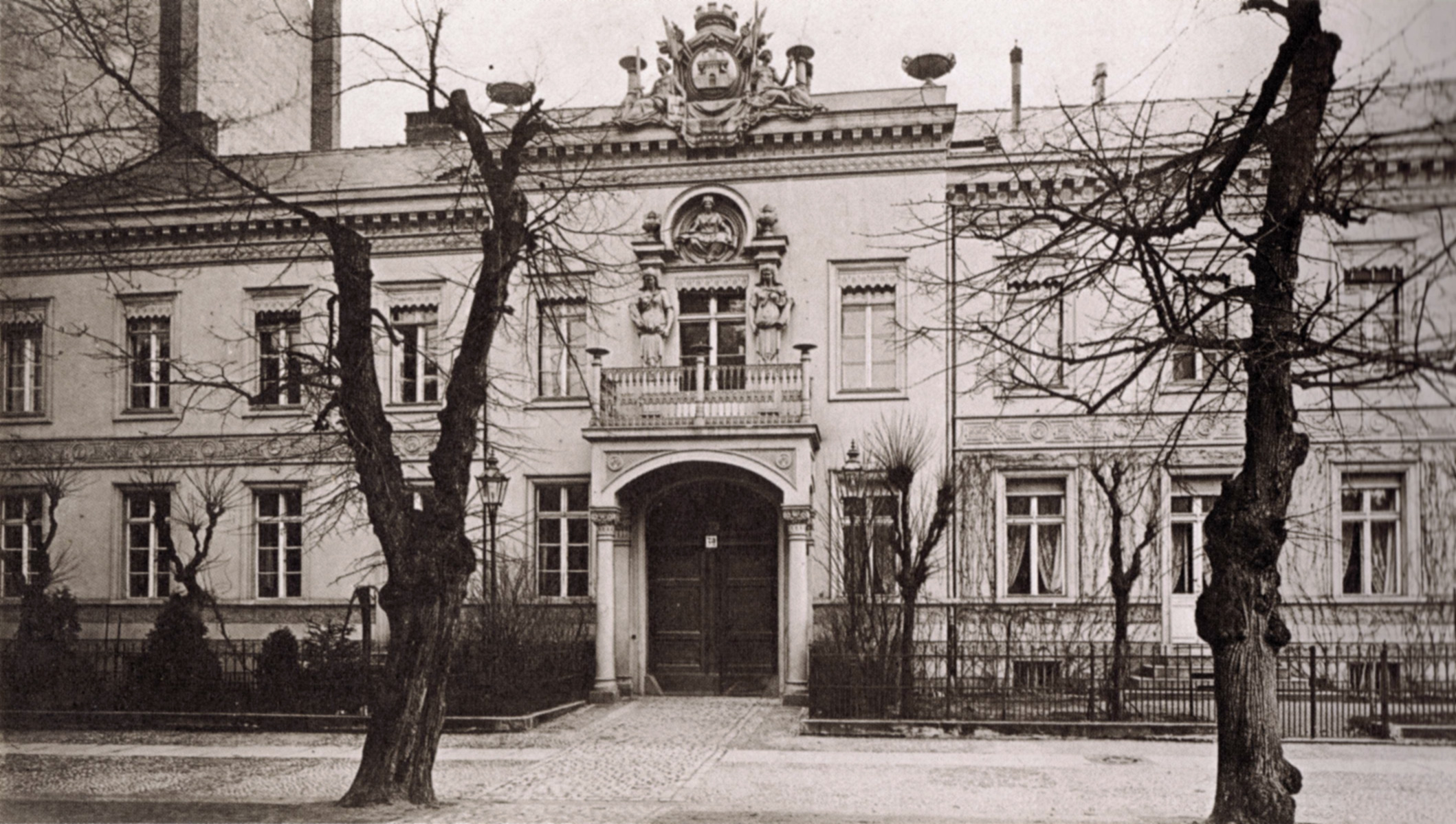 Second city hall of Charlottenburg, Berliner Allee No. 25, around 1885, demolished around 1900, address would be today: Otto-Suhr-Allee No. 96-98